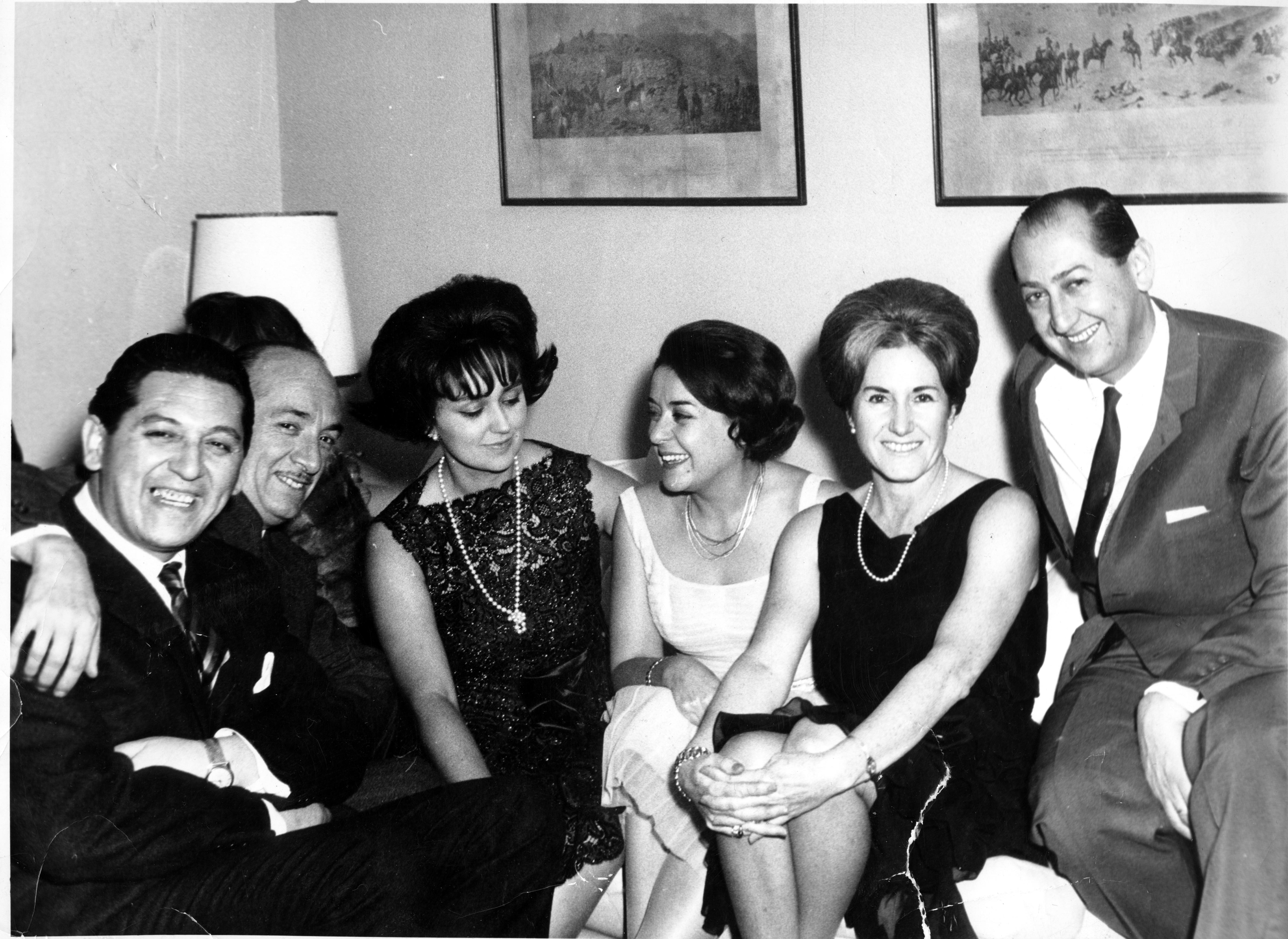 Chilean politicians (Radical Party) Carlos Morales Abarzua (1 from left to right), Raul Fernandez Longe (2) y Hugo Miranda (the last one; his wife, Cecilia Bachelet is 3, after RFL)